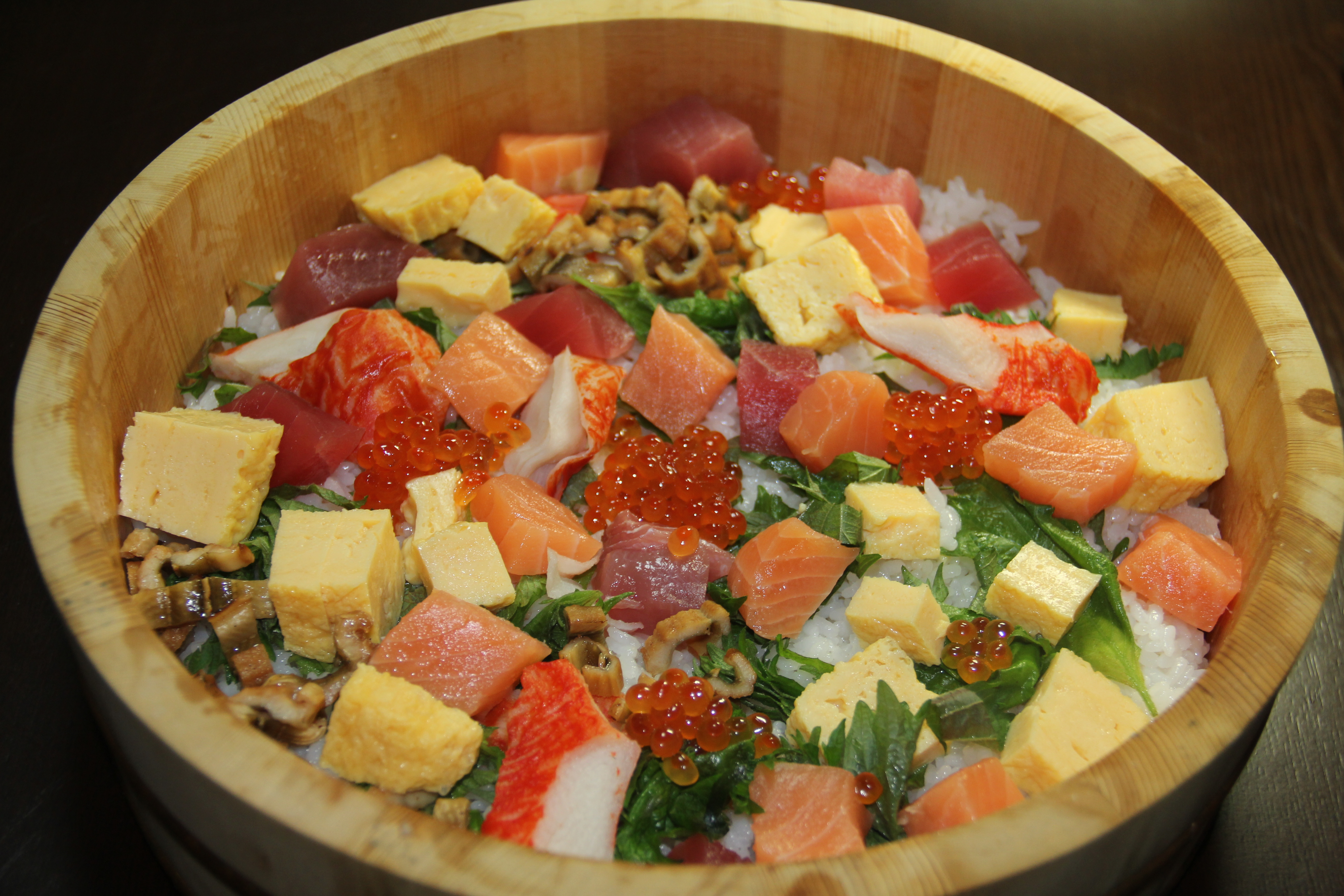 Chirashi-zushi